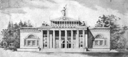 An illustration of the Woman's Building at the Tennessee Centennial Exposition in 1896. The two-story building is classical in style, with tall columns across the central section.